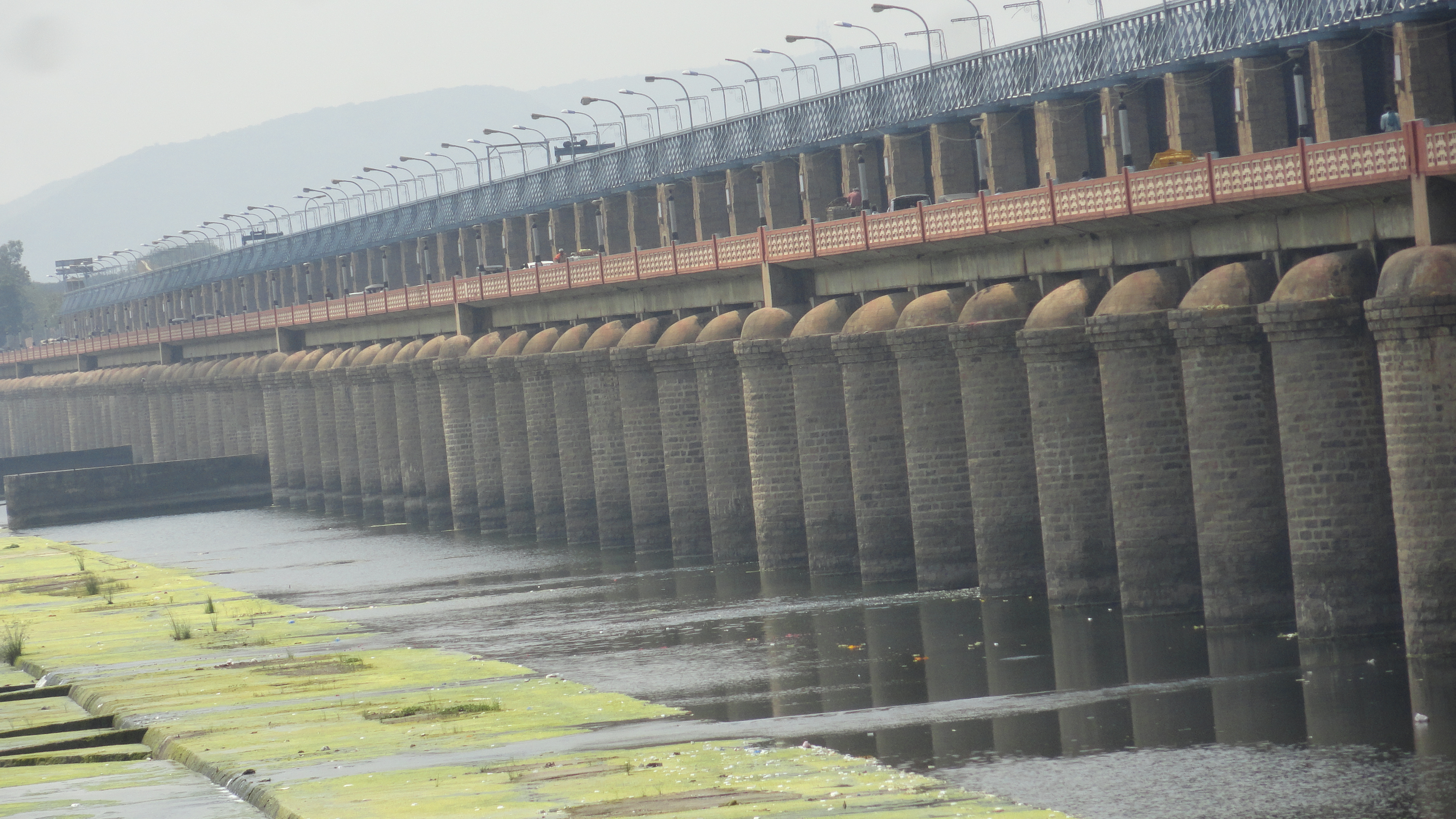 Water flow in PrakasaM barrage ప్రకాశం బారేజి / కృష్ణా నదిలో నీరు